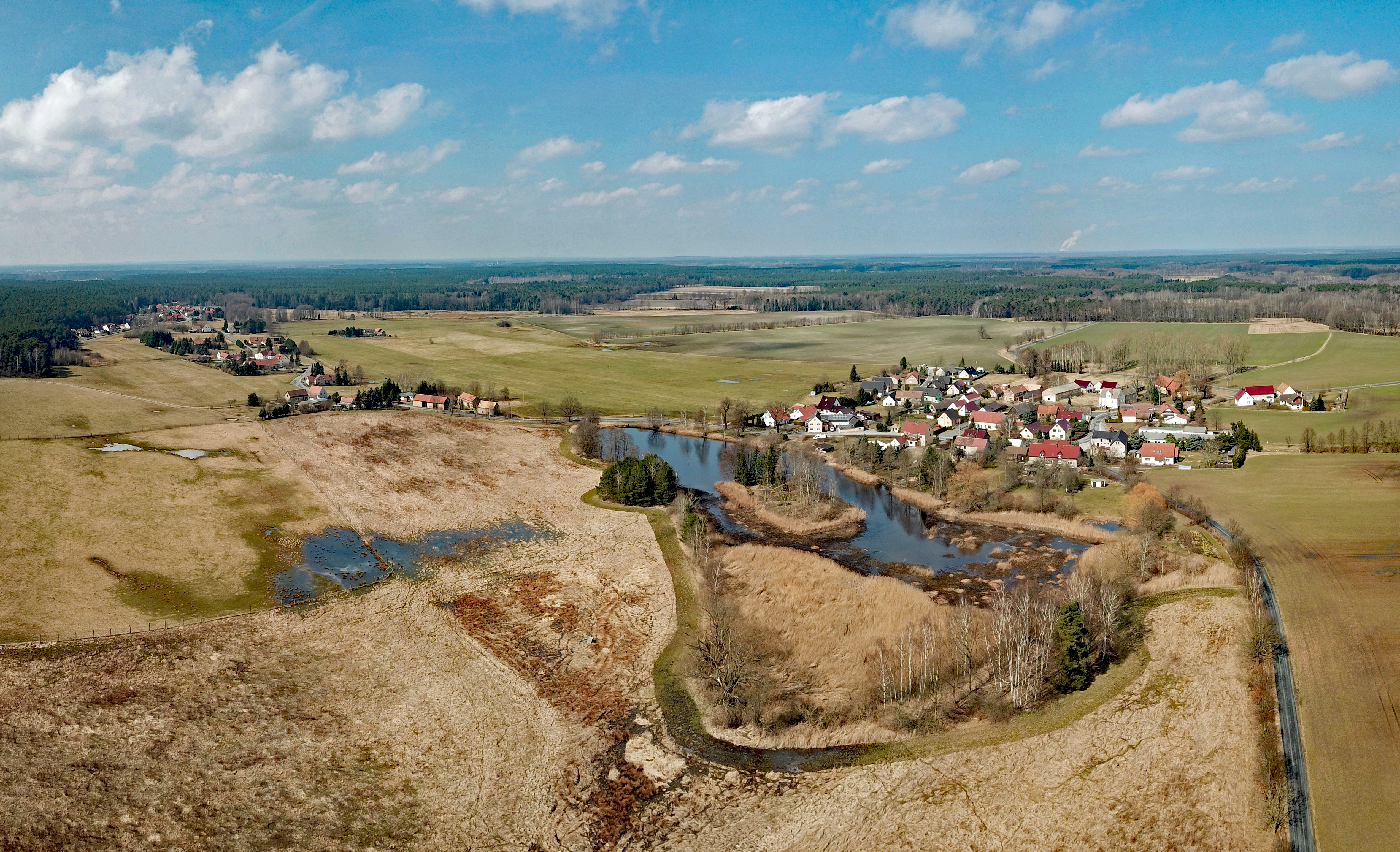 Oppitz (Königswartha, Saxony, Germany) Hornjoserbsce: Powětrowy wobraz Psowjow a Njeradka